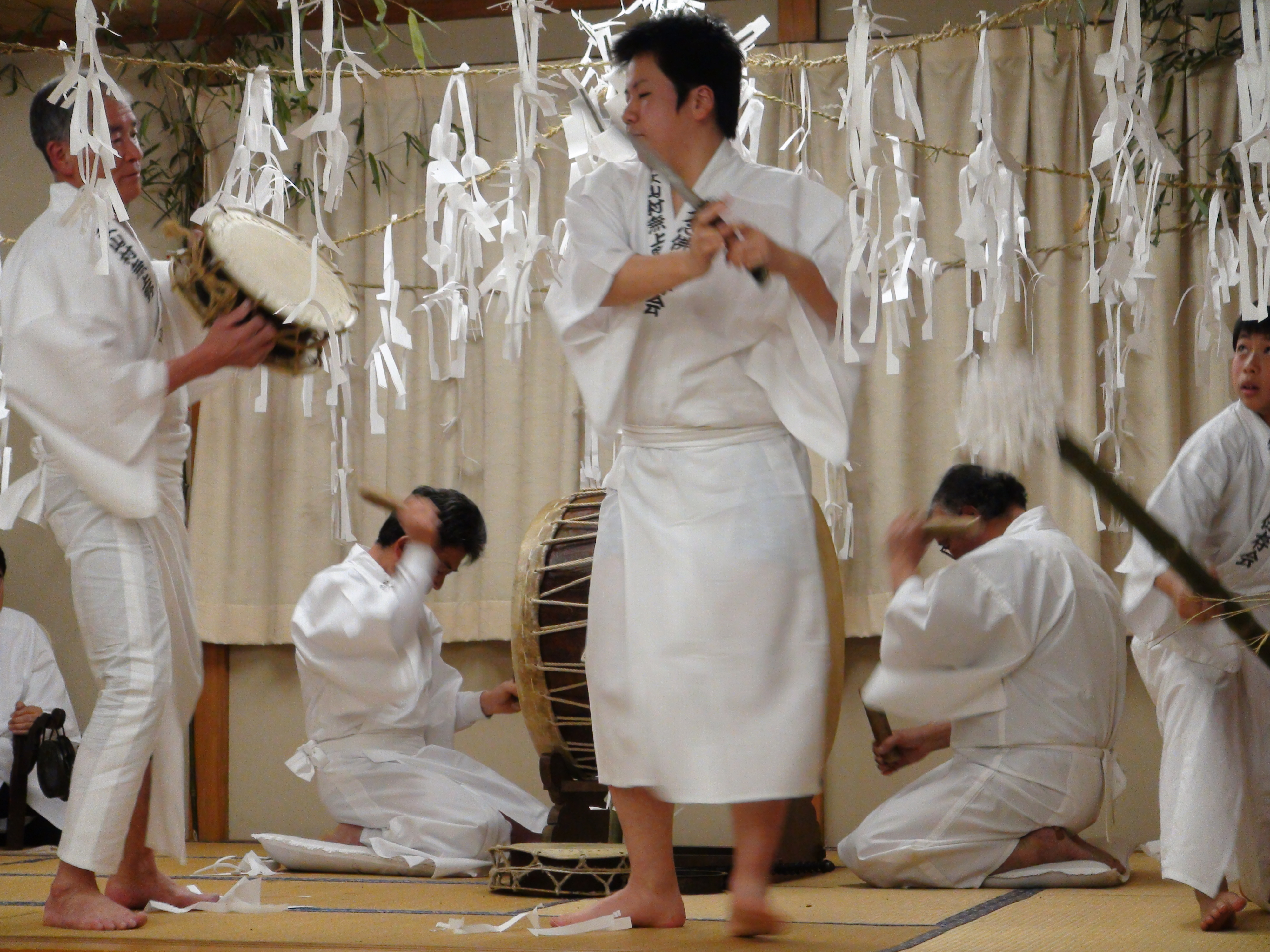 Mushono-Dainembutsu dance of Ippontachi(a dance with an invocation to the Buddha)